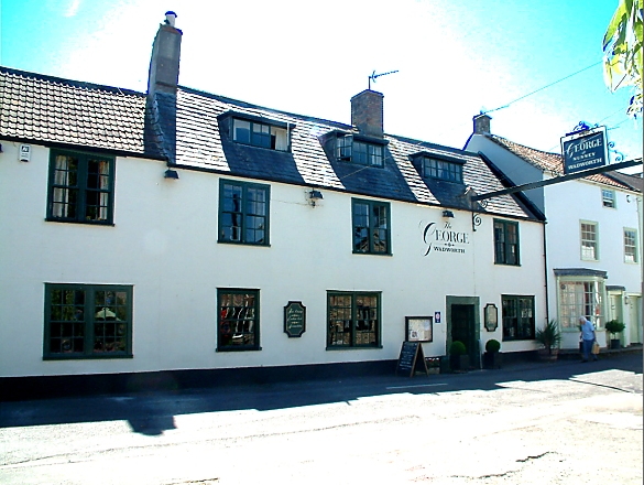 An updated picture of The George at Nunney, Frome, Somerset taken in 2014